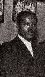 cropped version; original File:Leônidas da Silva and Arthur Friedenreich 01.jpg